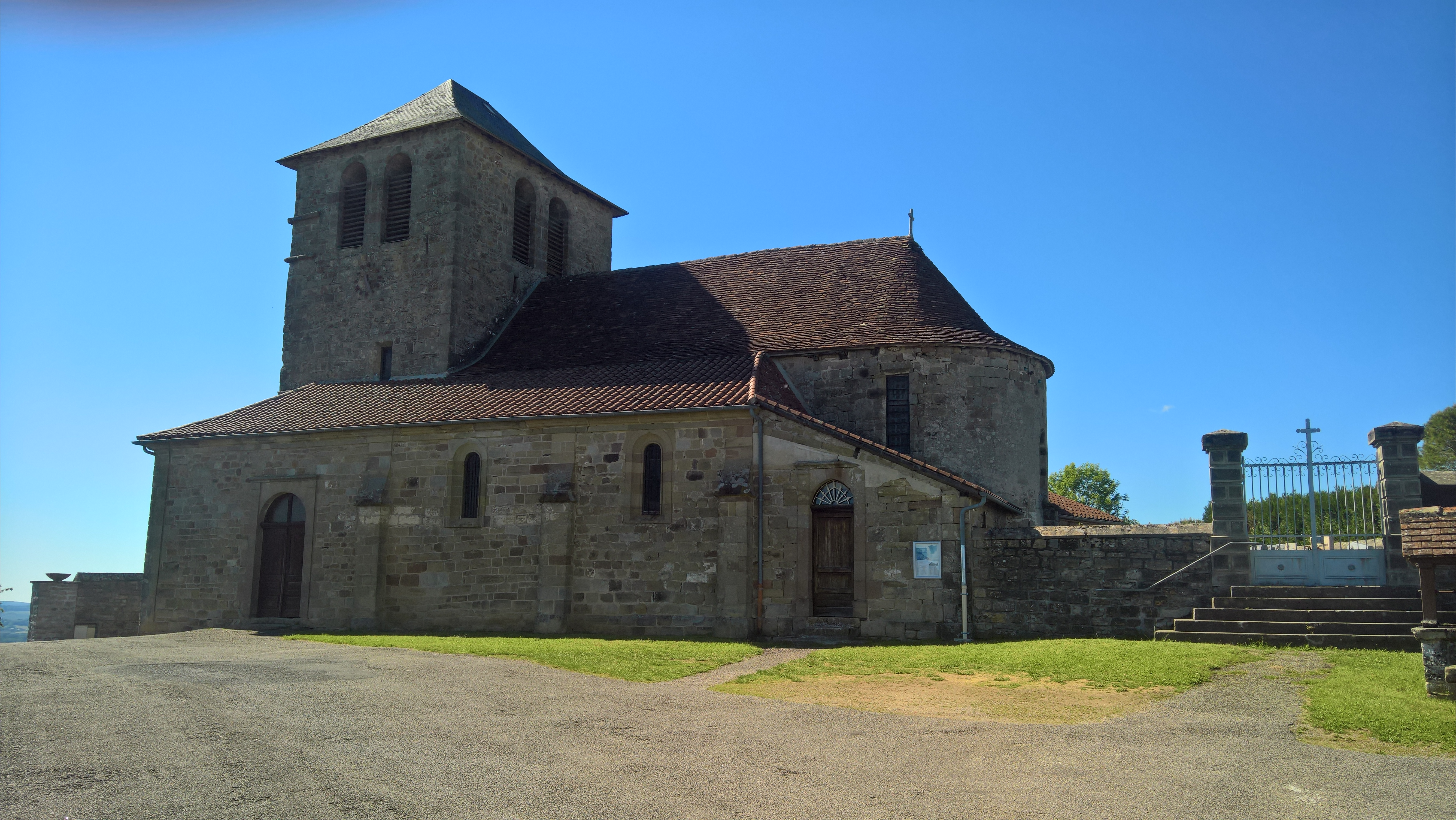 Village church at Puy-d'Arnac